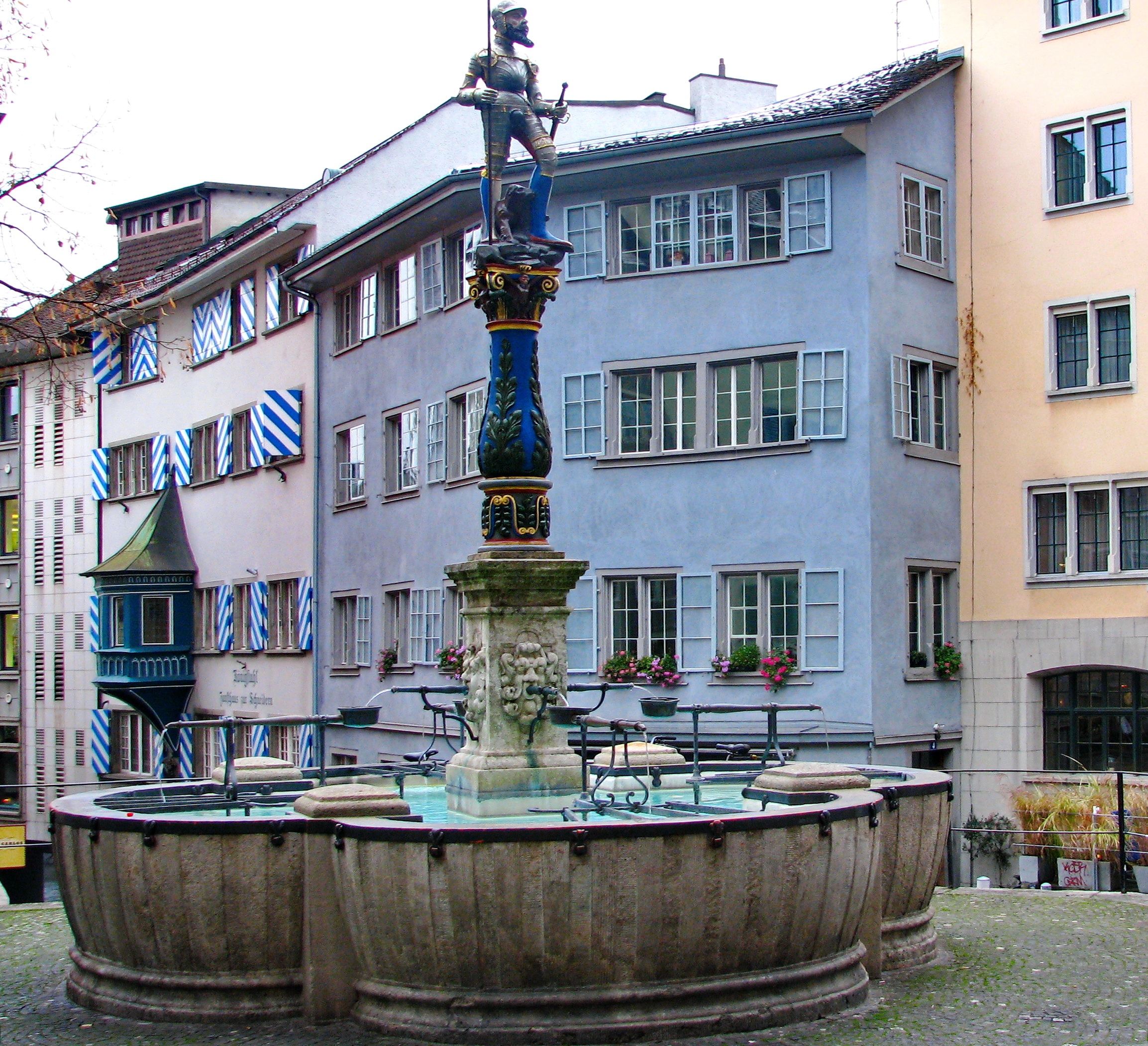 Zürich, Niederdorf: Stüssihofstatt with fountain memorial, «Haus Königstuhl», home of mayor Rudolf Stüssi († 22nd July 1443 in Zürich), used as Guild house «zur Schneidern» (tailor) in the background left.